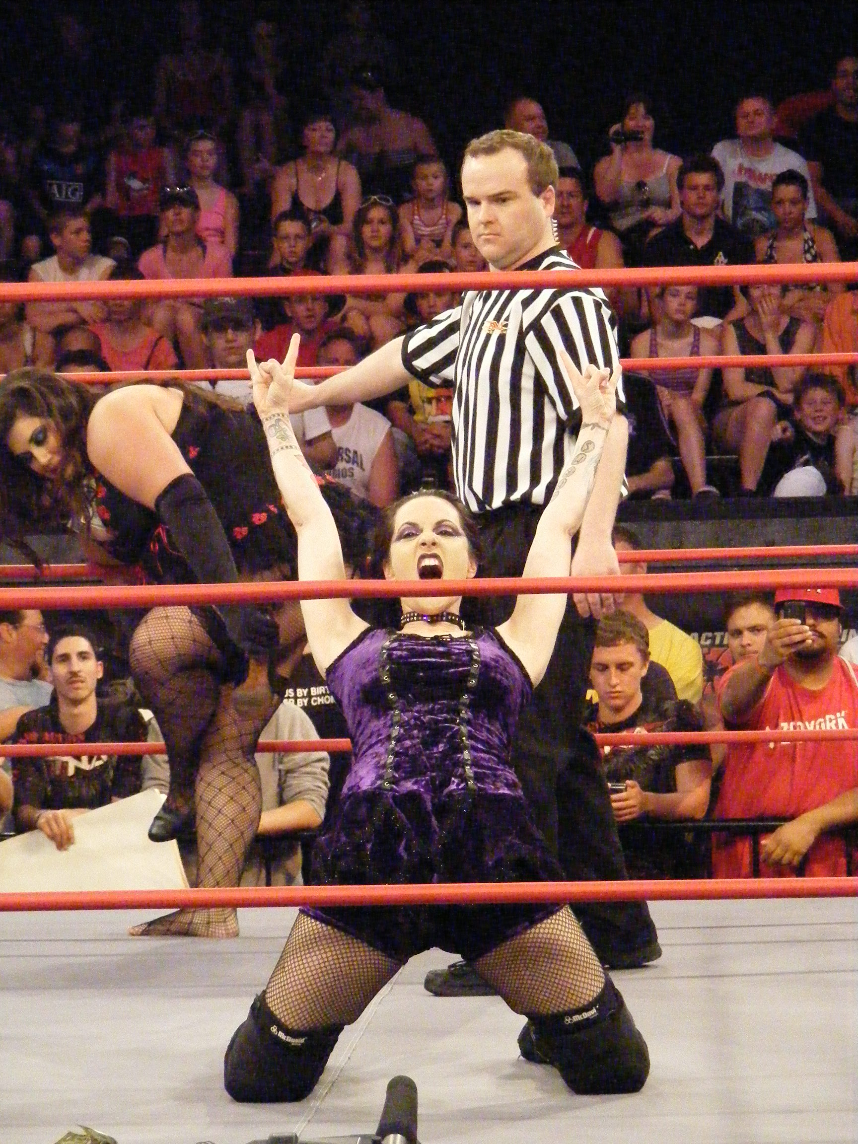 Daffney does her trademark scream and pose before a dark match during a TNA Impact taping.